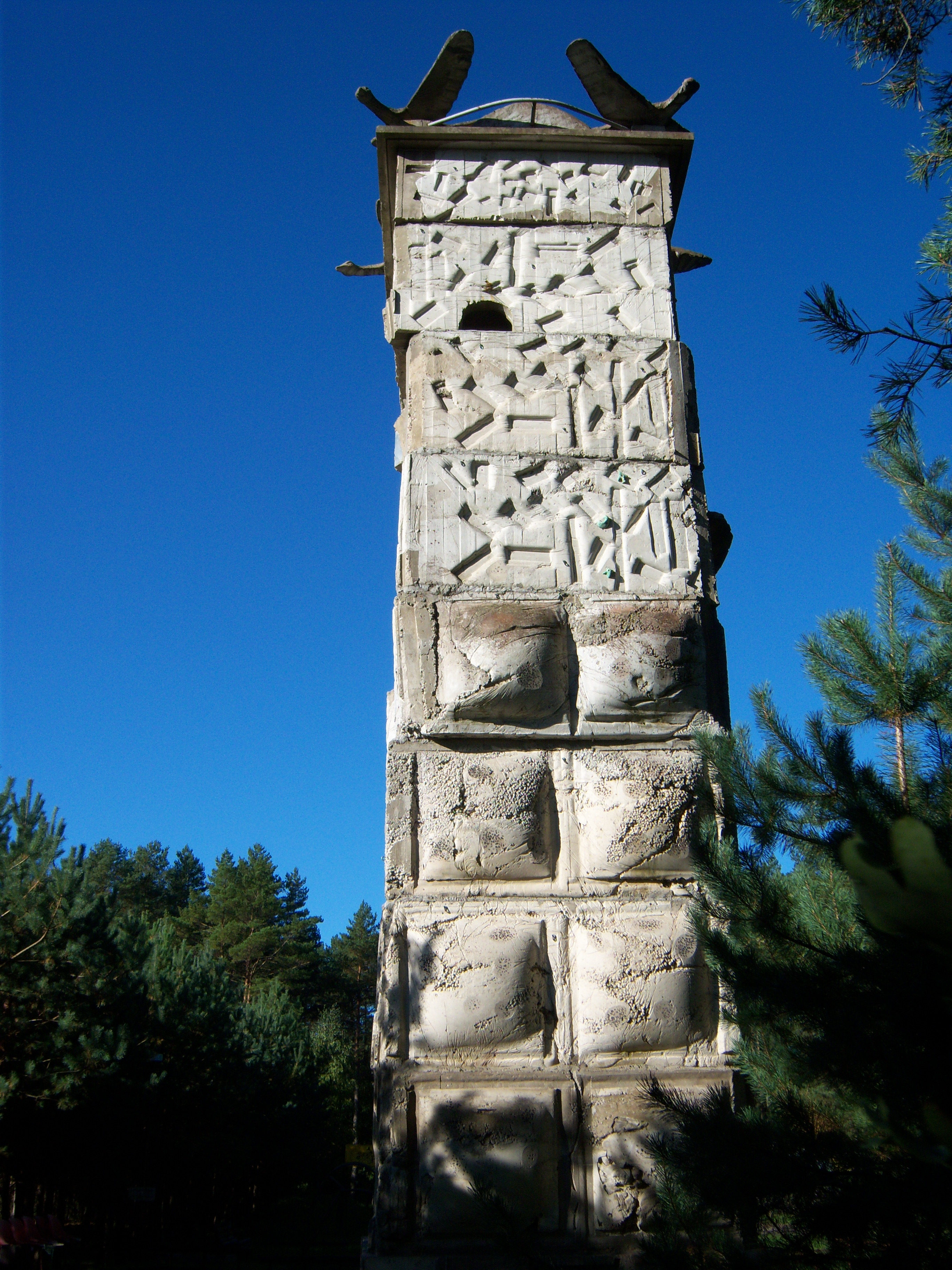 Jadagoniai, concrete structure, Kaunas district, Lithuania